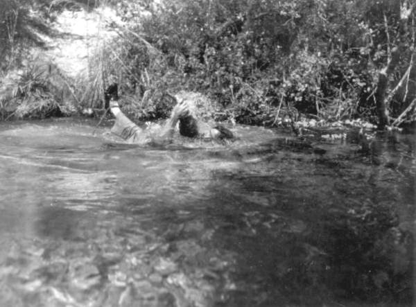 Local call number: c010949 Title: [Al Zaebst wrestling a wild alligator : Weeki Wachee River, Florida] Date: 1949. Physical descrip: 1 photoprint : b&w ; 4 x 5 in. Series Title: (Commerce Collection.) General note: "In a last desperate twist the alligator breaks the surface with Al Zaebst still riding safely." Repository: 500 S. Bronough St., Tallahassee, FL 32399-0250 USA. Contact: 850-245-6700. Persistent URL